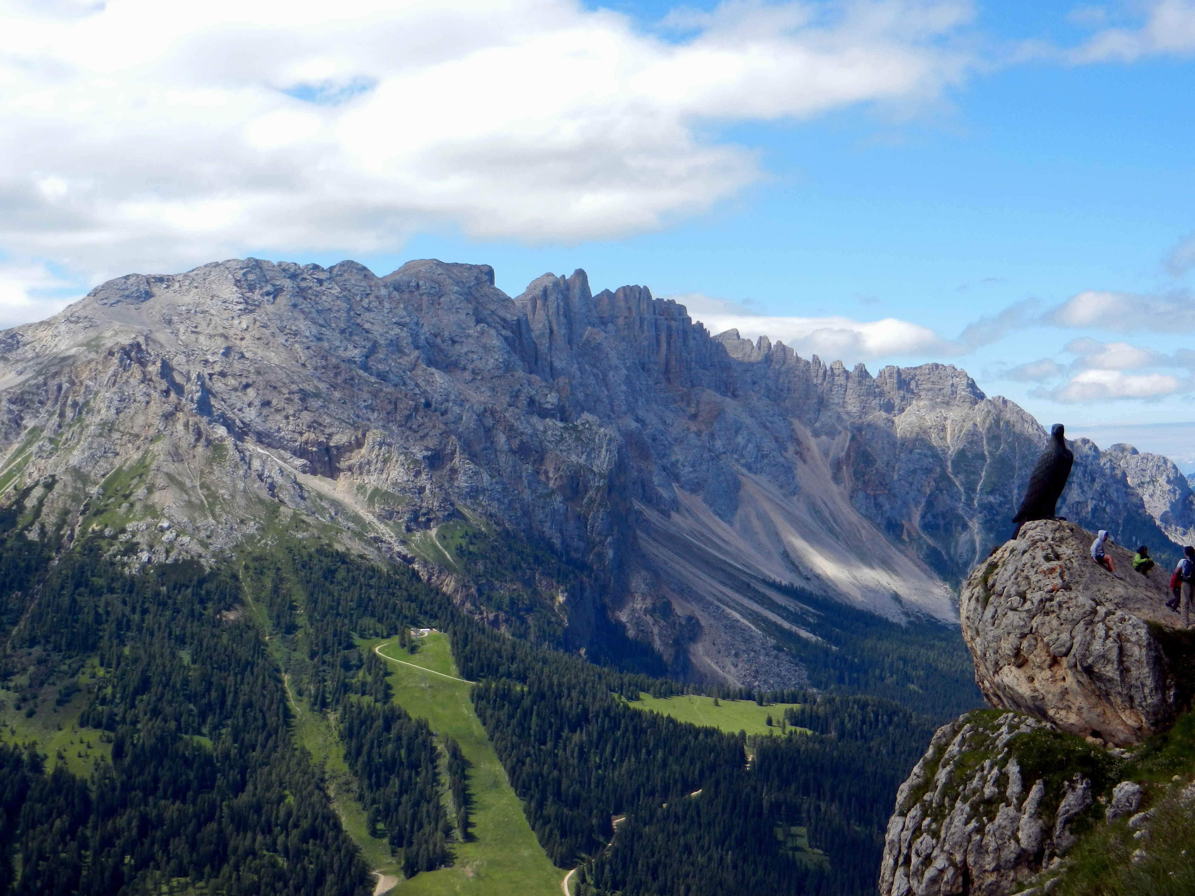 Dolomites, Mount Latemar